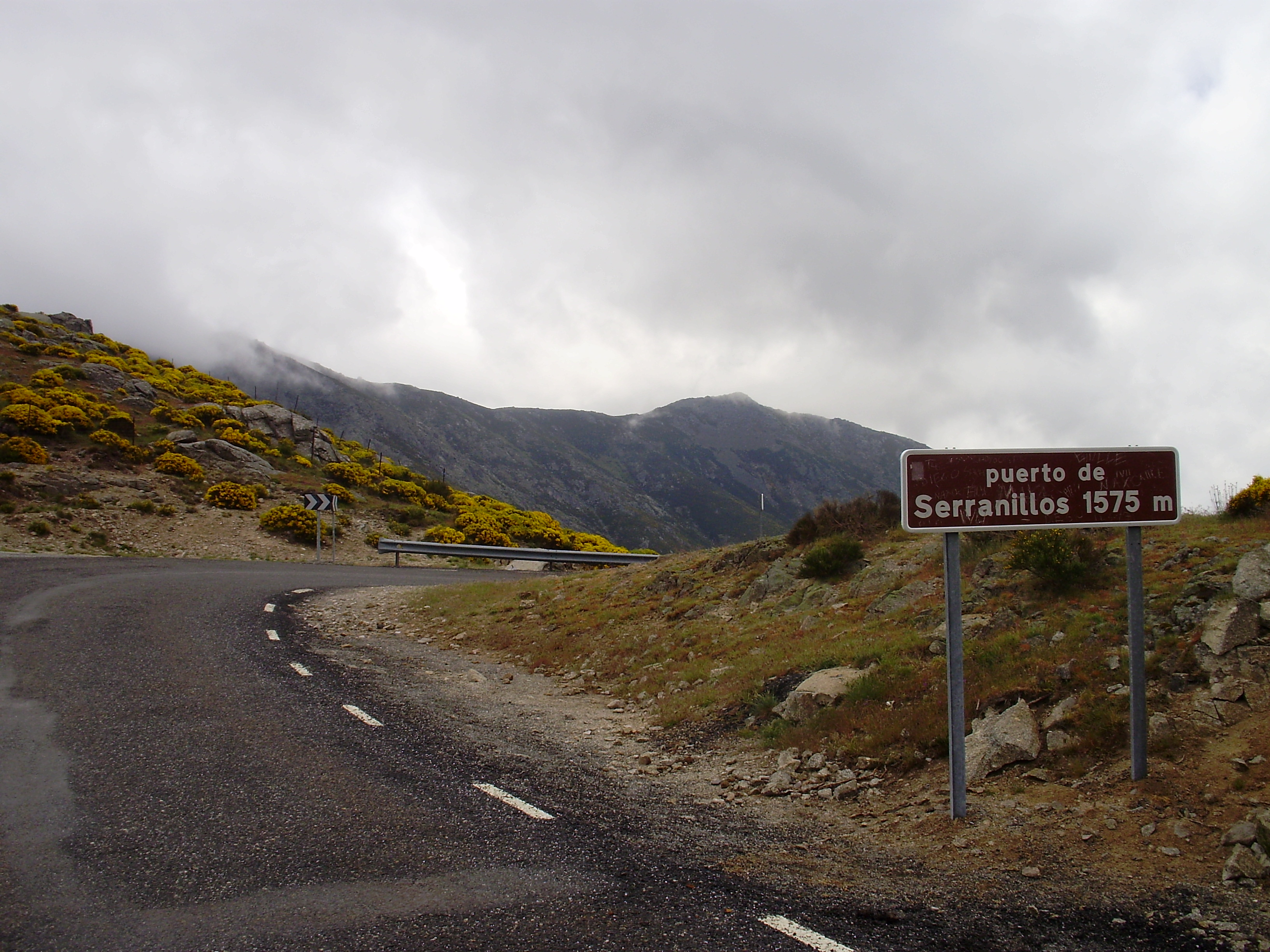 View of Puerto (mountain pass) de Serranillos, Ávila, Castile and León, Spain.